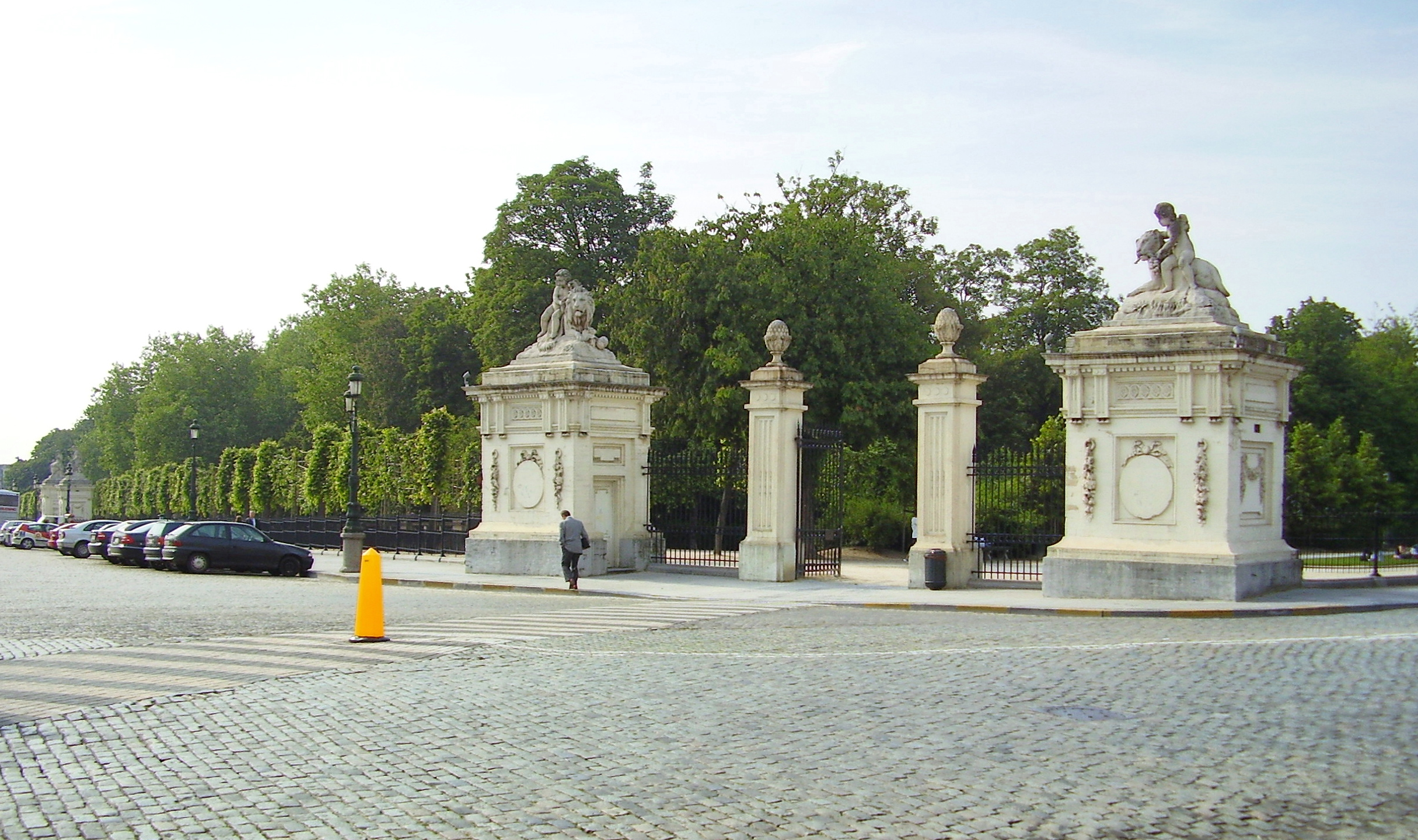 Description: Parc de Bruxelles Author: User:Ben2 Date of creation: 08 juin 2006 Source: Photo personnelle